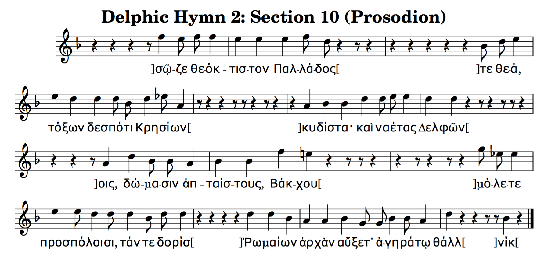 A transcription into modern musical notation of the last section of the 2nd Delphic Hymn